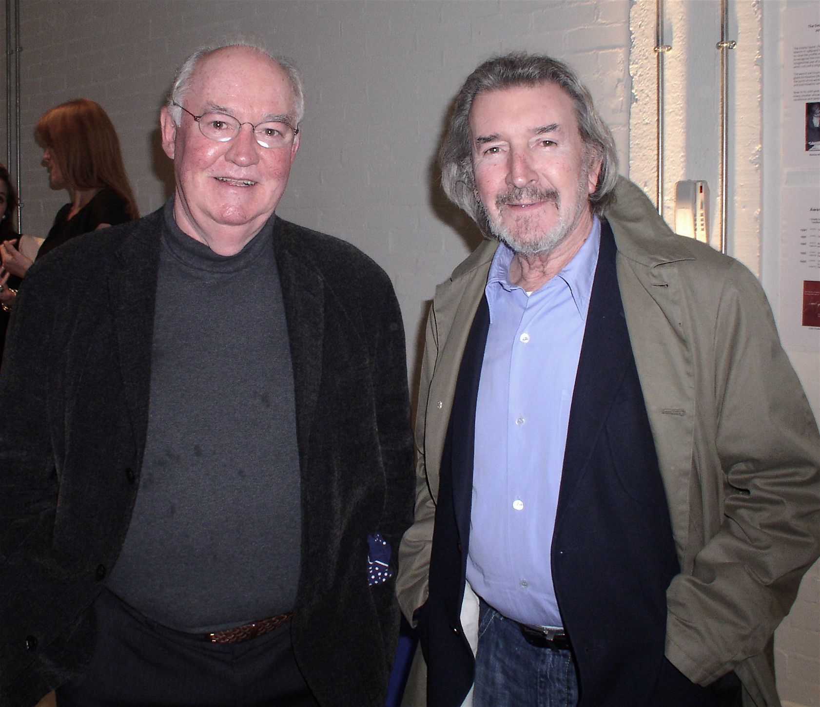 Leading British actors David Calder (left) and Gawn Grainger were among the guests at the Empty Space...Peter Brook Award ceremony, held at the National Theatre Studio in London on Tuesday 3rd November 2009. National Theatre Studio, The Cut (off Waterloo Road) London SE1